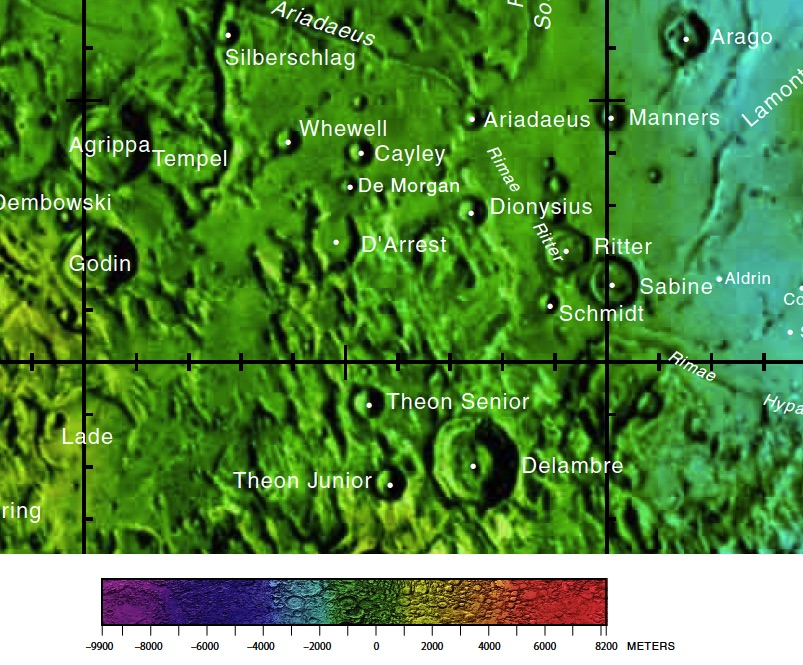 Part of the near side lunar chart is used for the presentation.